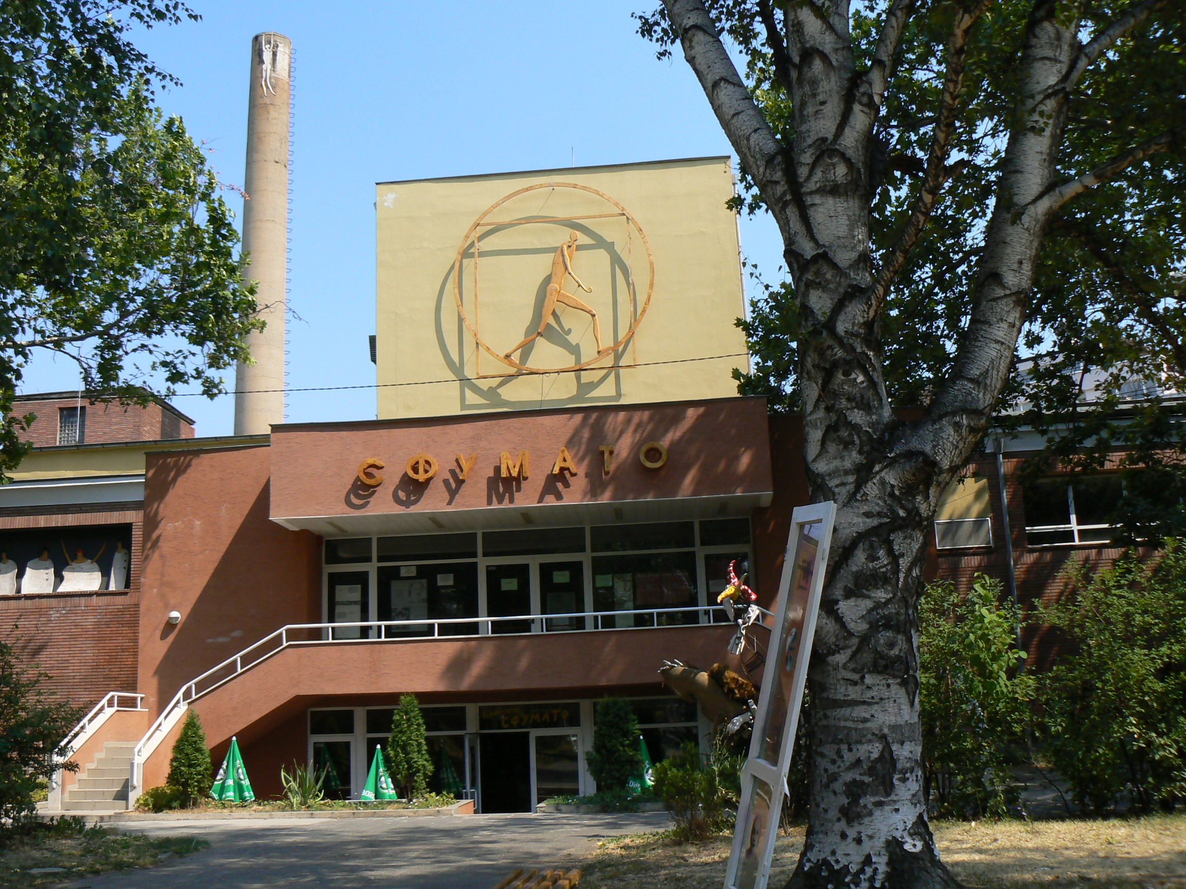 Building of the Theater workshop "Sfumato", Sofia, Bulgaria.